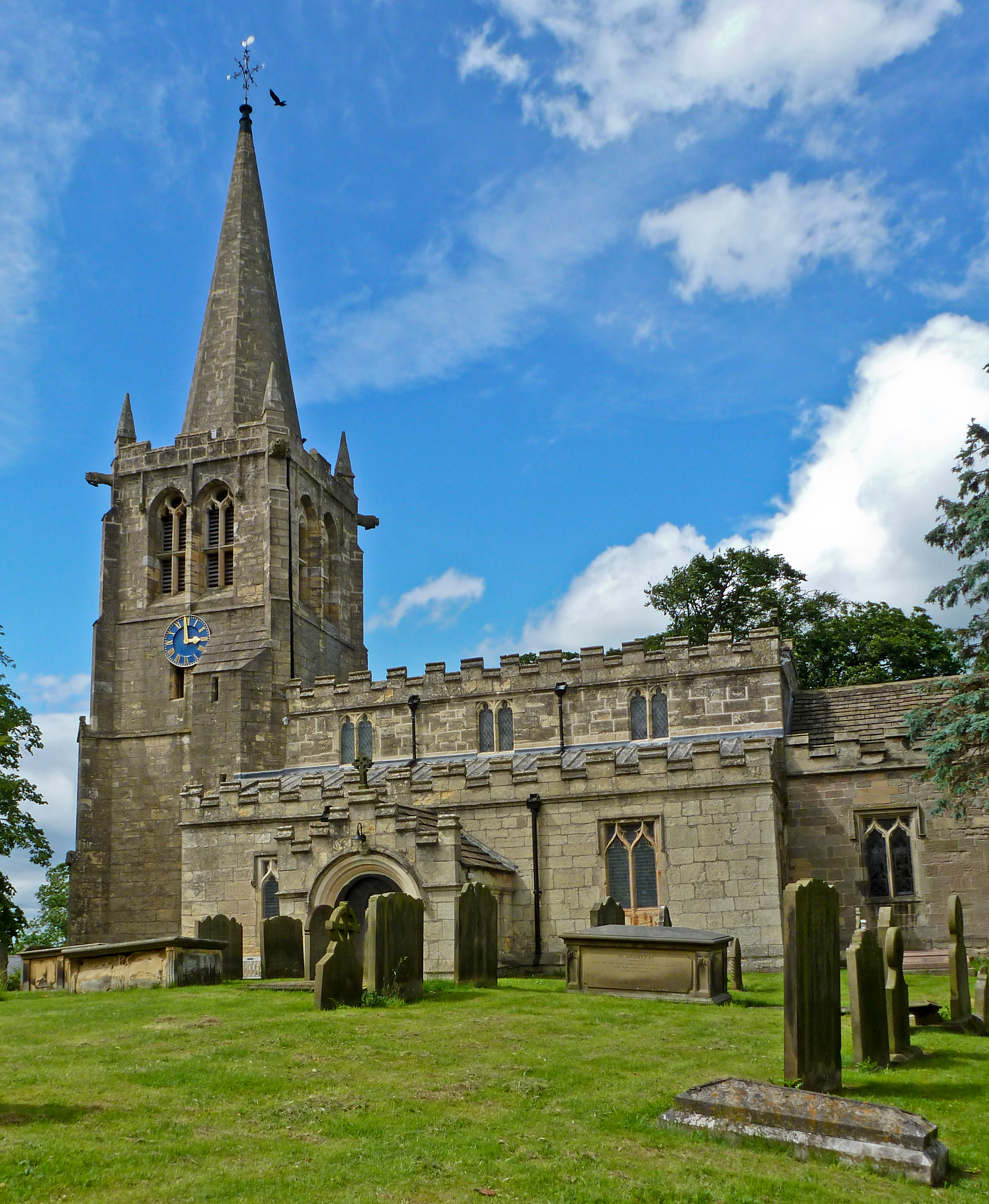 Nave, west tower and spire of All Saints' parish church, Kirk Deighton, North Yorkshire, seen from the south